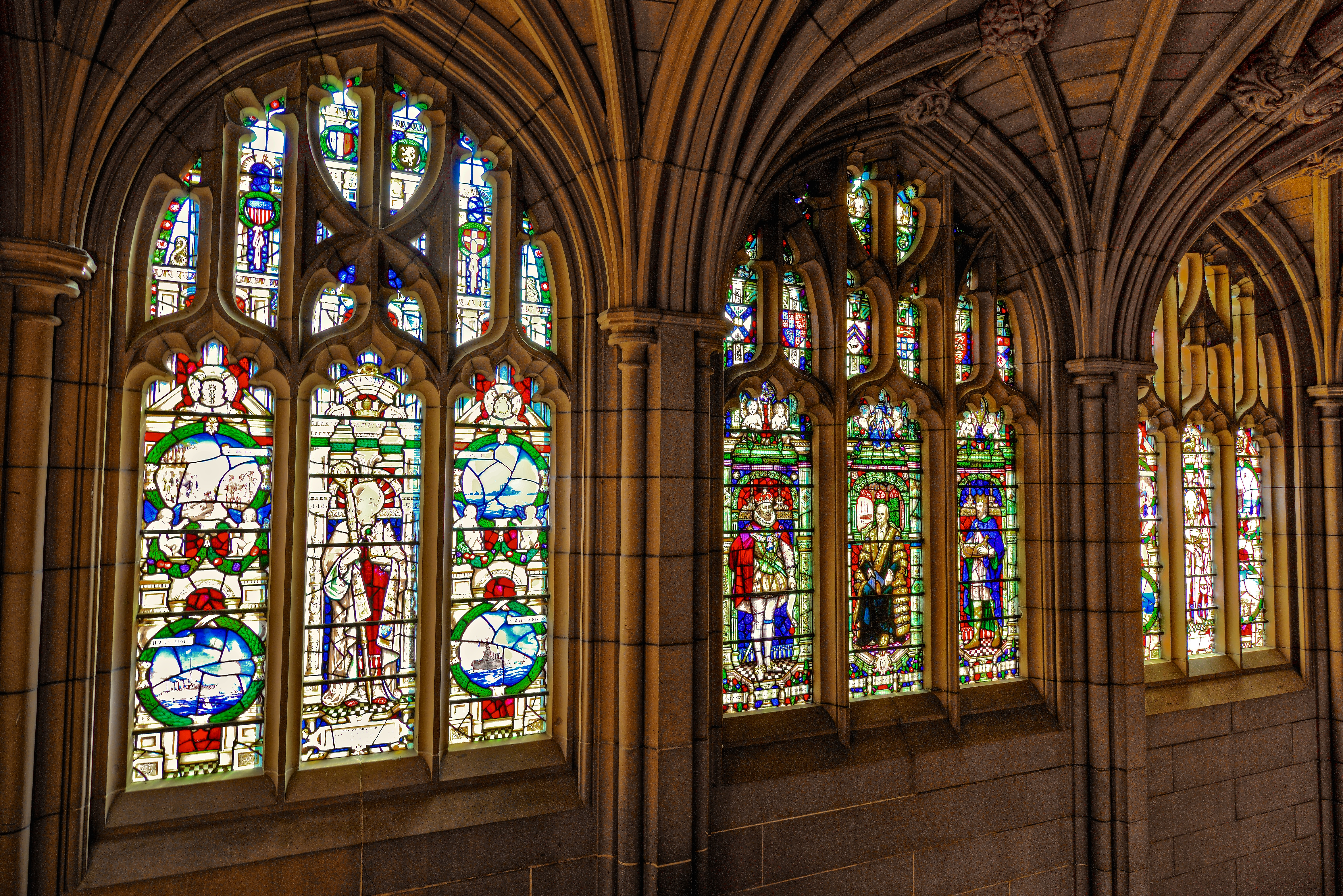 The stained glass located by the MacLaurin Hall staircase depicts various important figures in the foundation of the university's history, including Challis.